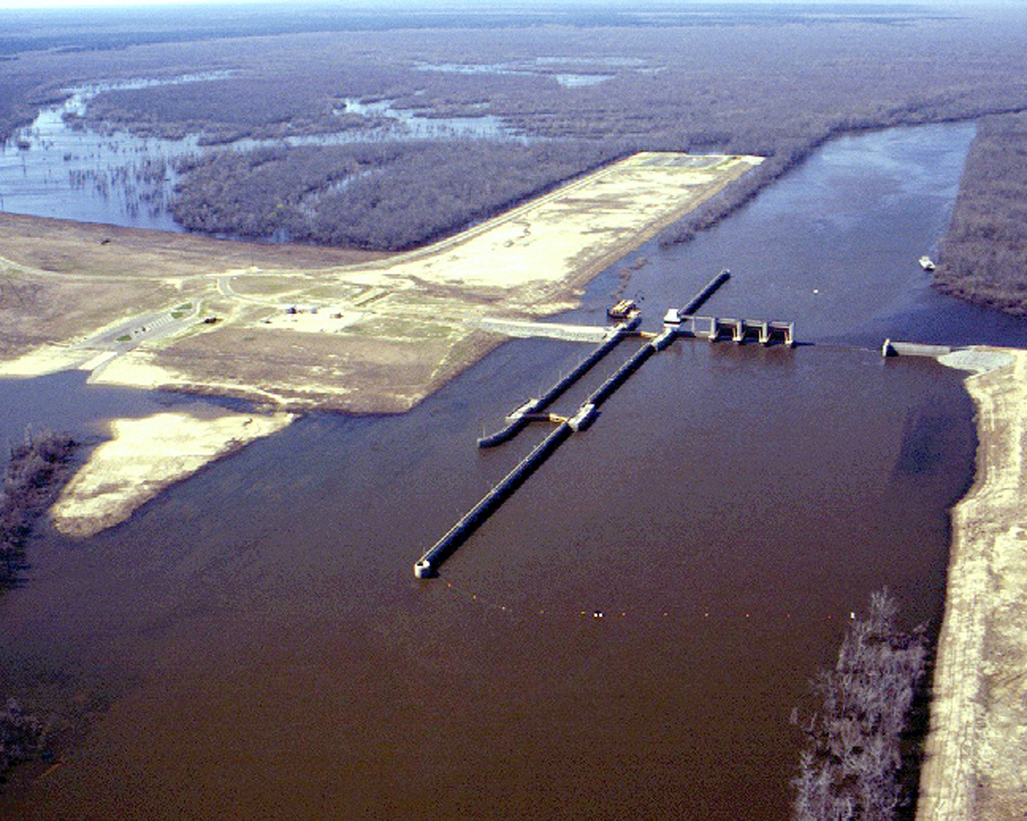 Aerial view of the locks at Felsenthal Lock and Dam near Felsenthal, Arkansas, USA. The dam impounds Lake Jack Lee, a large lake and green tree reservoir in in Ashley, Bradley, and Union Counties. The lake is part of the Felsenthal National Wildlife Refuge. The dam is much longer than is shown in this picture